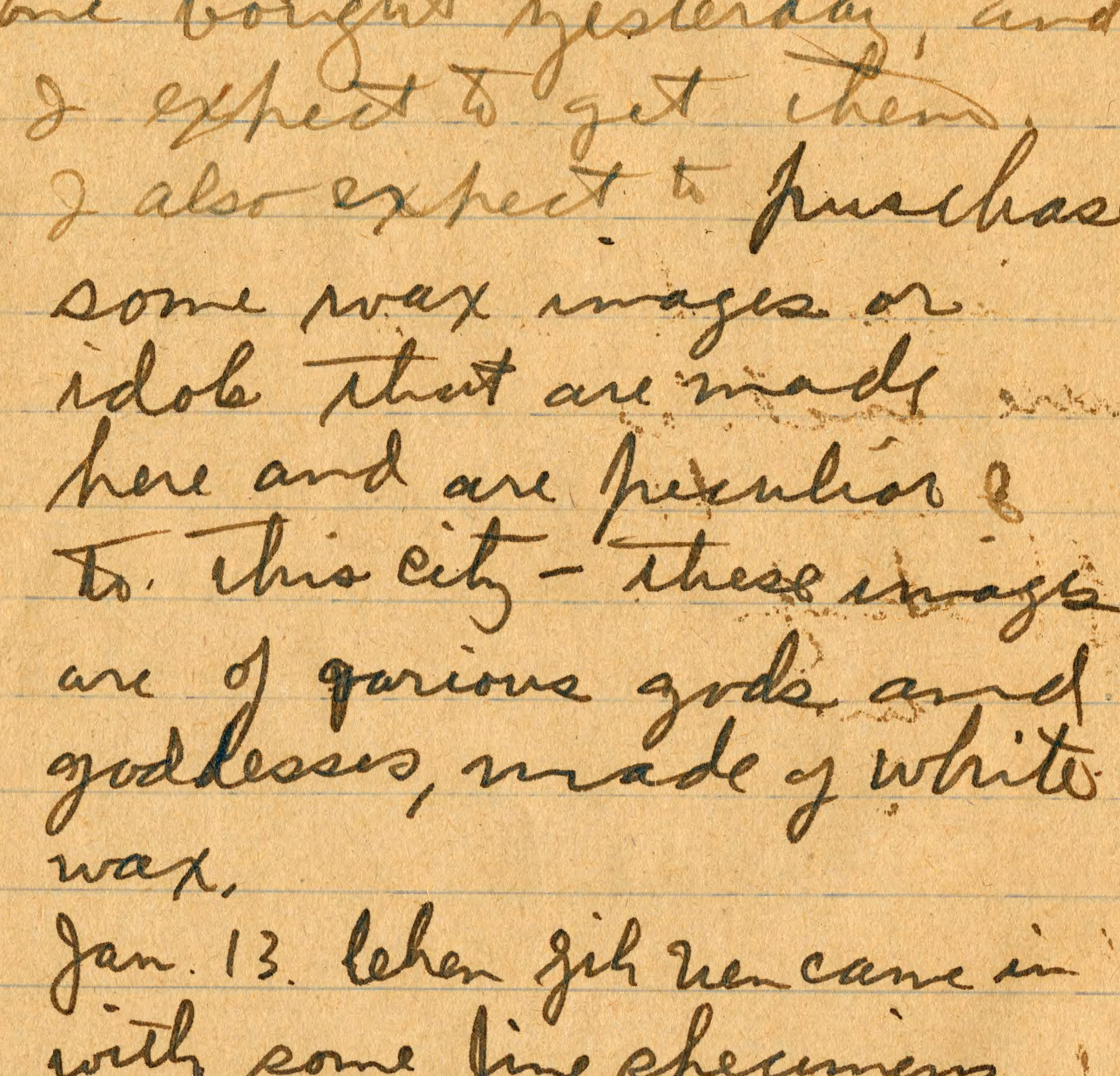 Title: Diary no. I (1), November 14, 1927 to January 29, 1928 Year: 1927 (1920s) Authors: Graham, David Crockett Subjects: Entomology; Ornithology; Mammalogy; Herpetology; [1] Publisher: Text Appearing Before Image: ' Text Appearing After Image: '